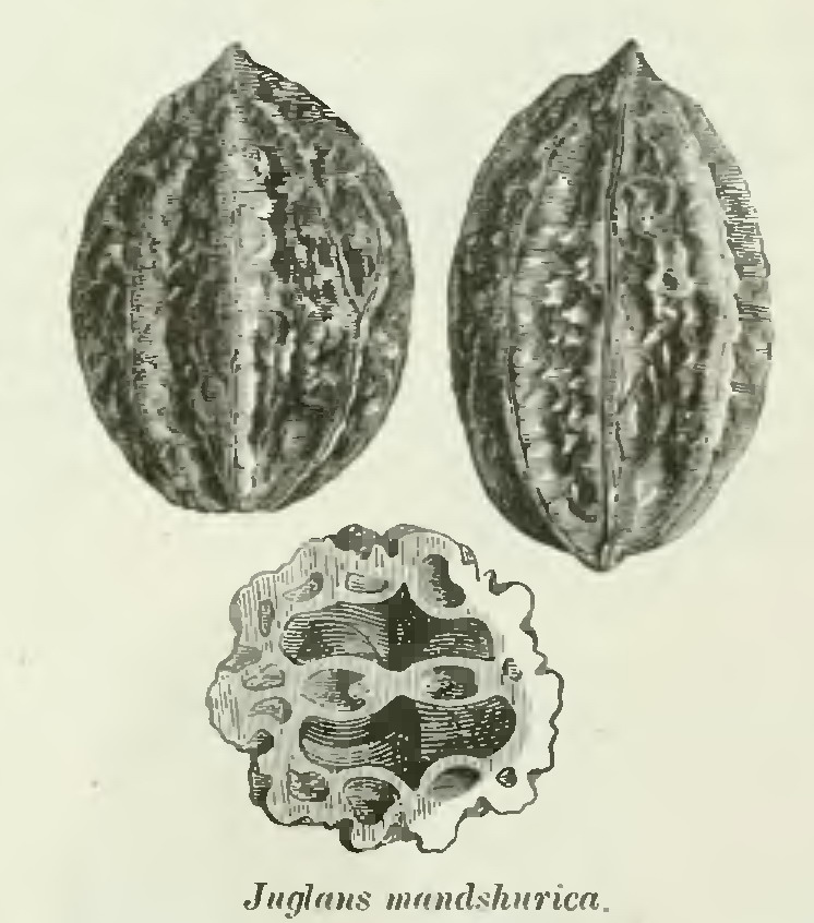 Juglans mandshurica. Illustration from С. J. Maximowicz. Diagnoses des nouvelles plantes du Japon et de la Mandjourie. // In : Bulletin de l'Academie Imperiale des Sciences de St. Petersbourg. Tome dix-huitieme. St. Petersbourg, 1873, XII decade, p. 39.